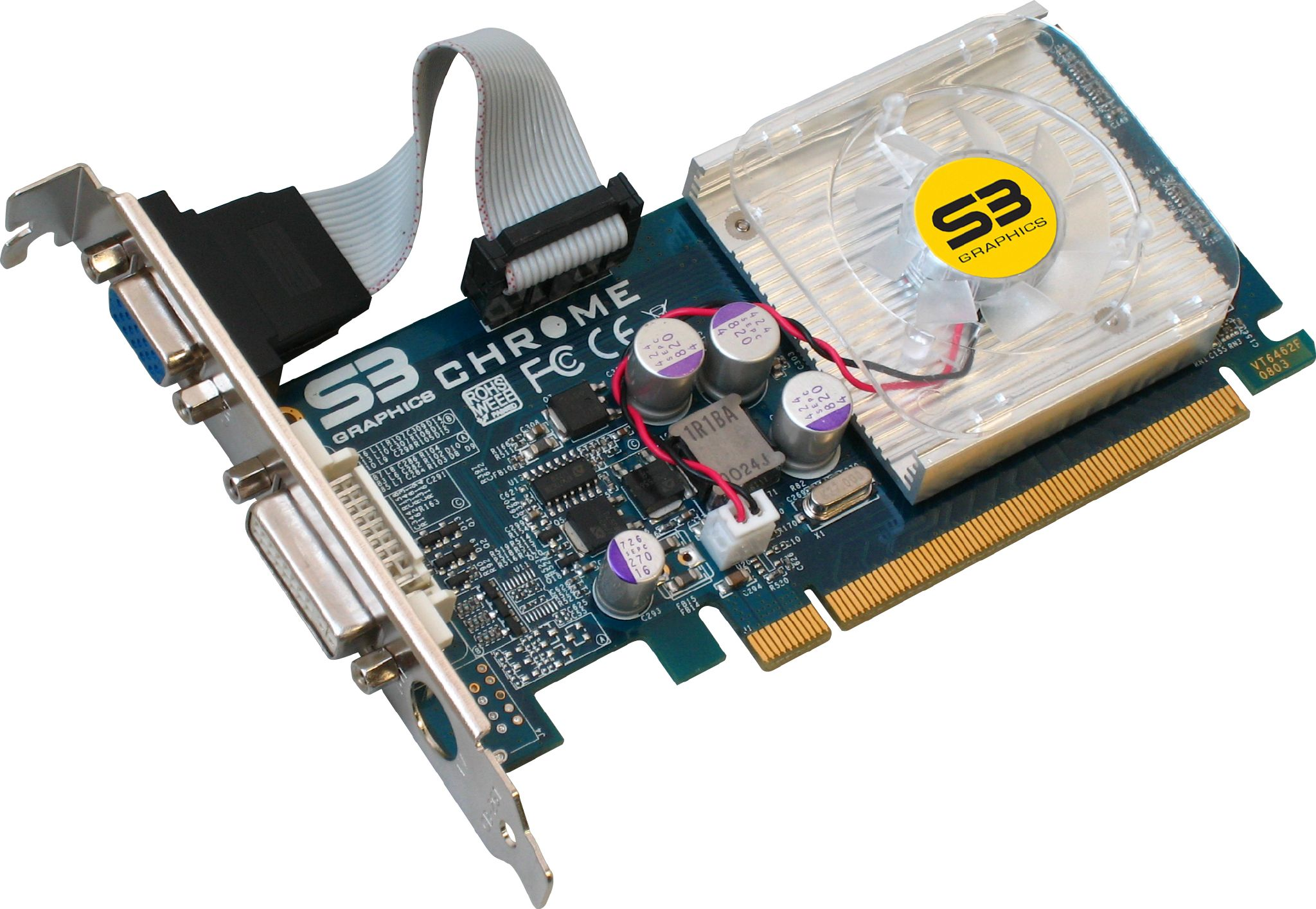 S3 Graphics Chrome 430 GT in perspective view